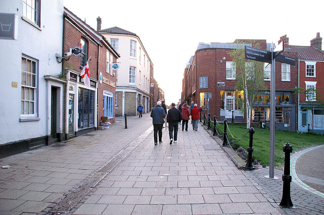 Pottergate, Norwich. Looking west; from the same position as 827802.